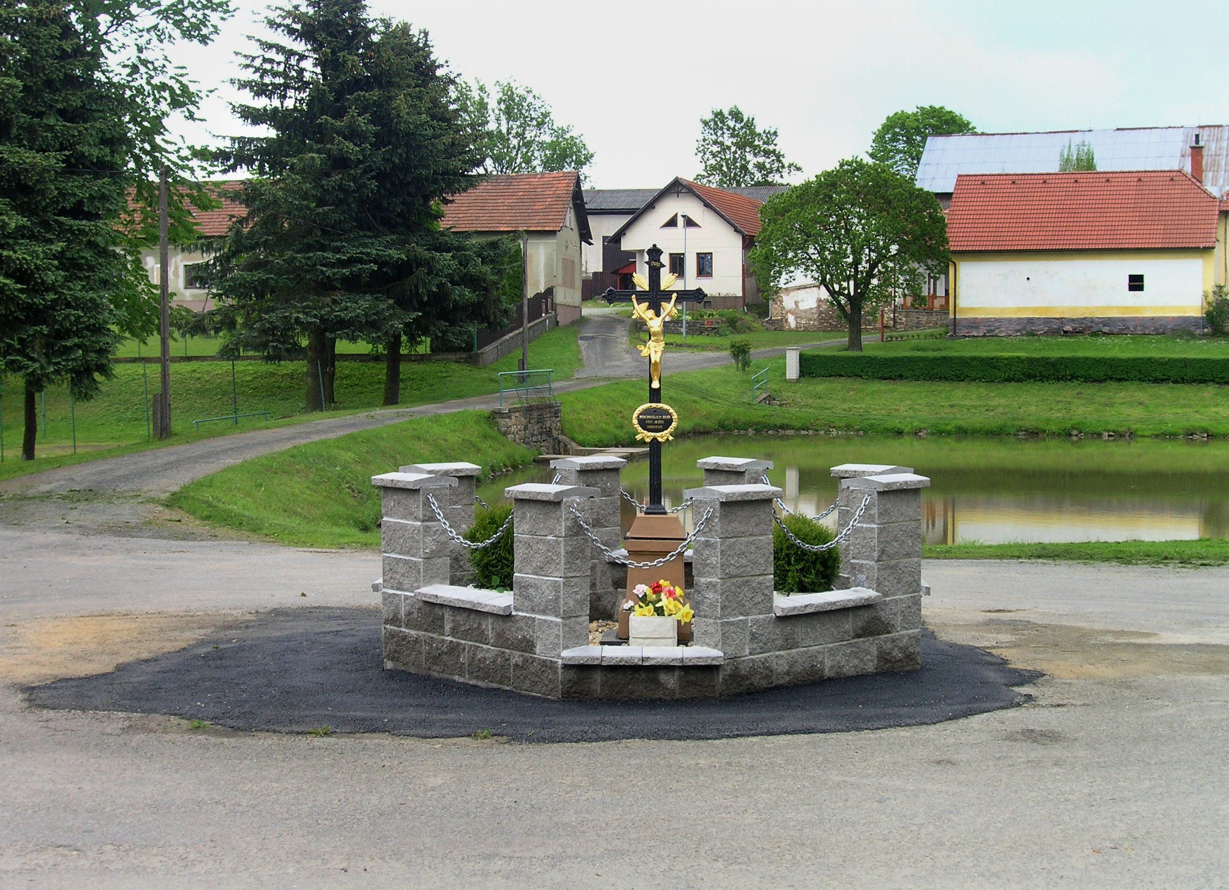 Crucifix in Proseč, part of Kámen village, Czech Republic